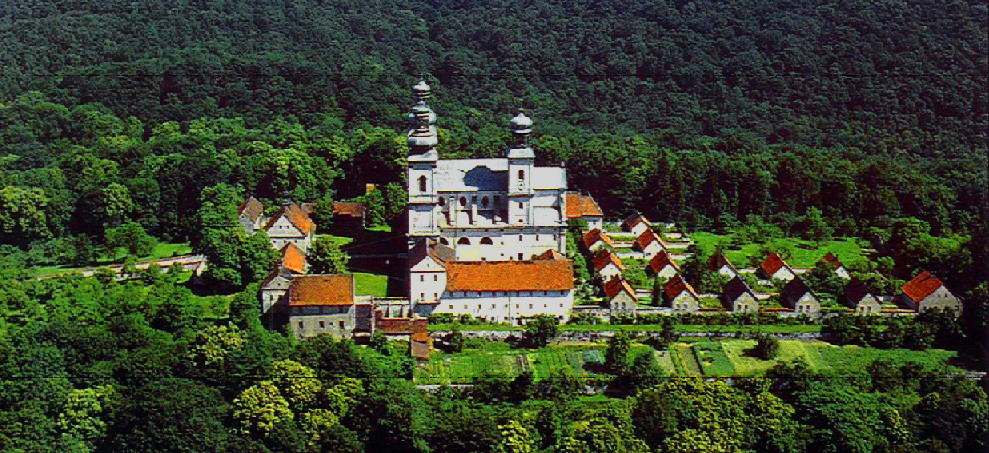 Yermo Camaldulense de Monte Martires en Bielany, Cracovia